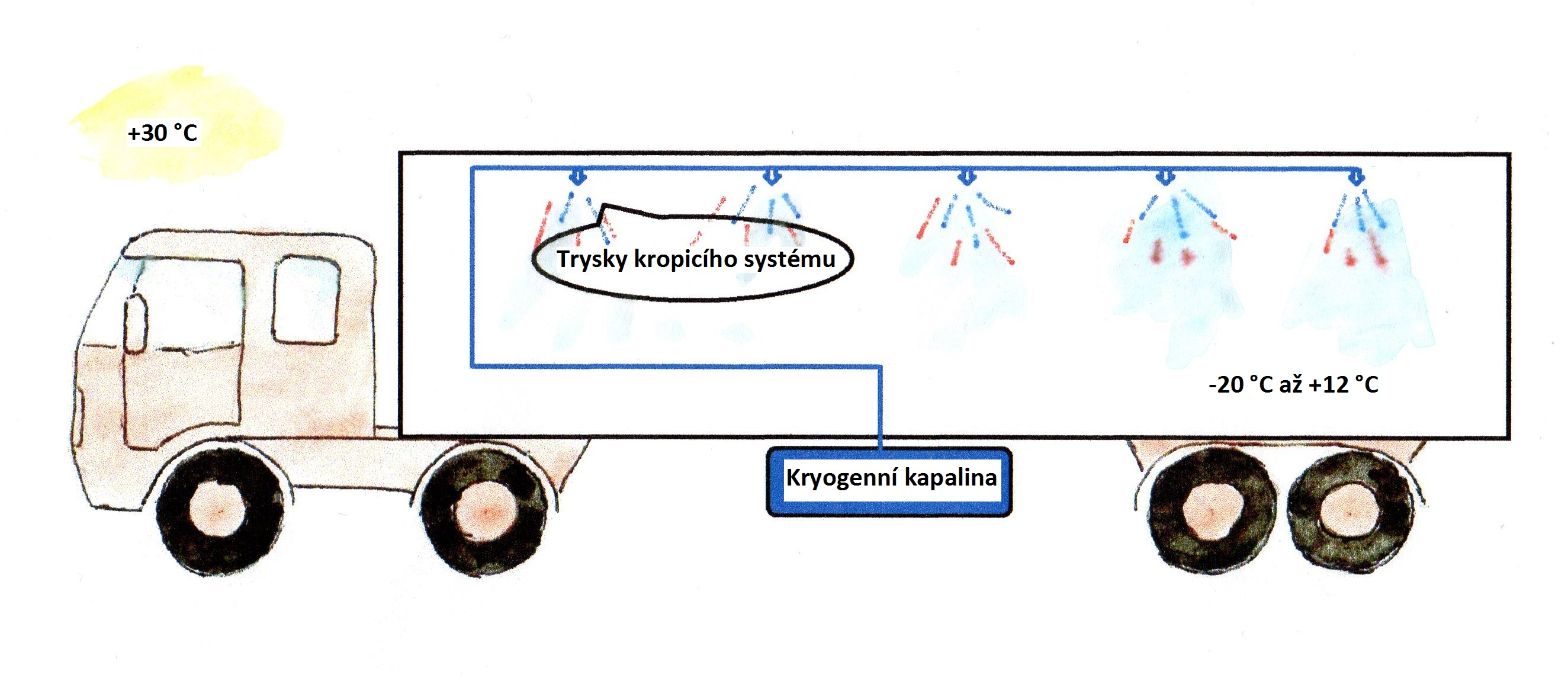 Cryogenic transport refrigeration unit - direct cooling. Princip of operation.